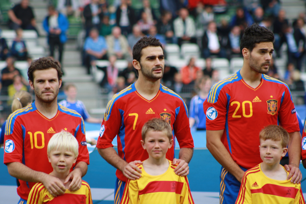 Juan Manuel Mata (#10), Adrián López Álvarez (#7), and Alberto Botía (#20), playing for the Spanish Under-21 team in 2011